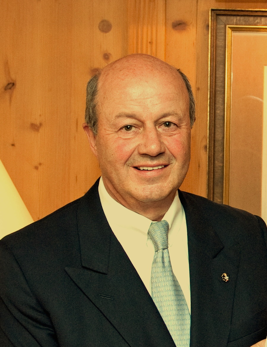 Ambassador of the Sovereign Military Order of Malta